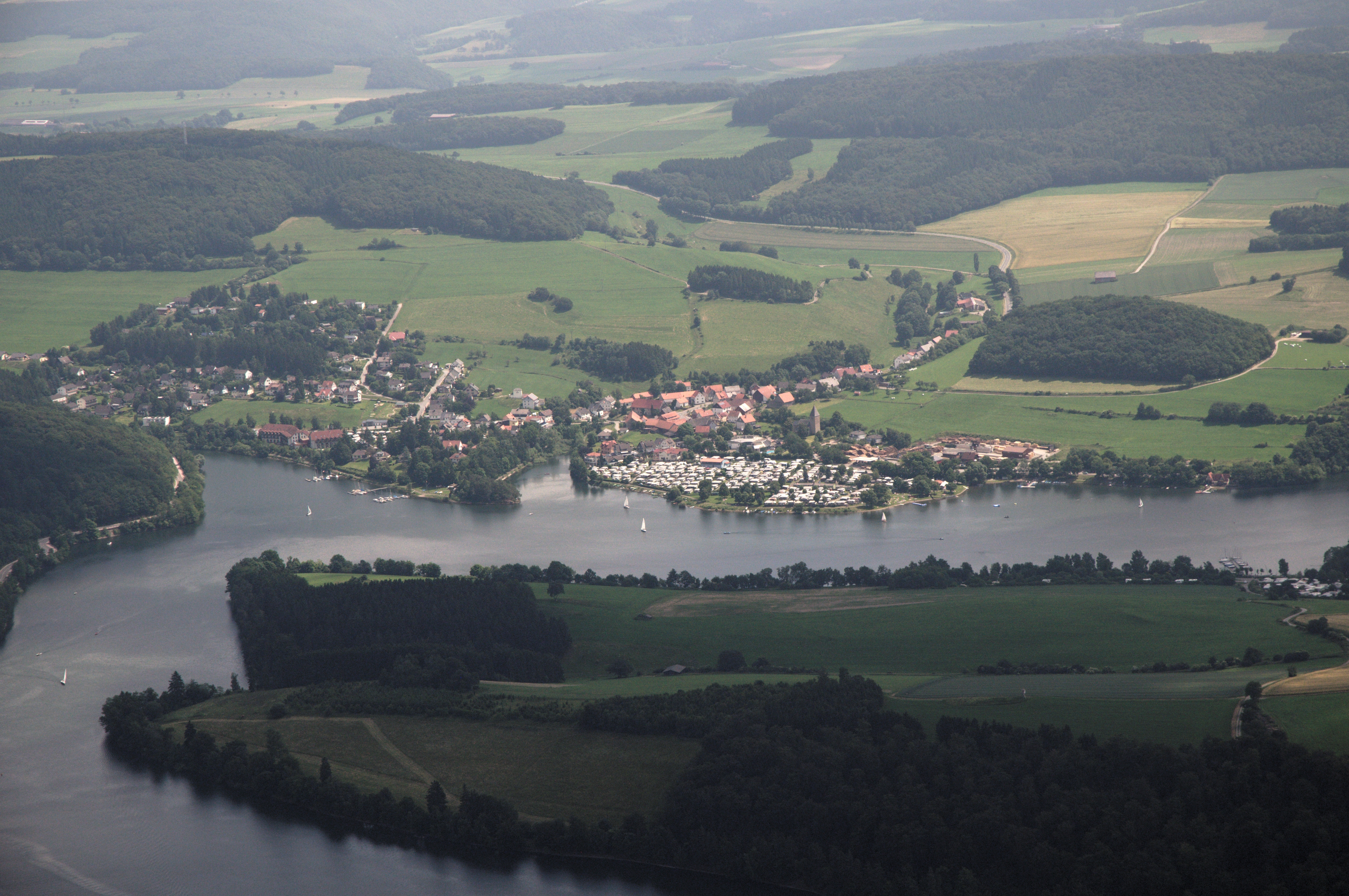 Fotoflug Sauerland-Ost, Diemelsee mit Heringhausen The making of this document was supported by the Community-Budget of Wikimedia Germany.